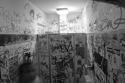 Toilet wuth graffiti in the independet culture centre KAPU in Linz, Upper Austria, Austria